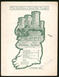 Sheet music from Eileen, 1917